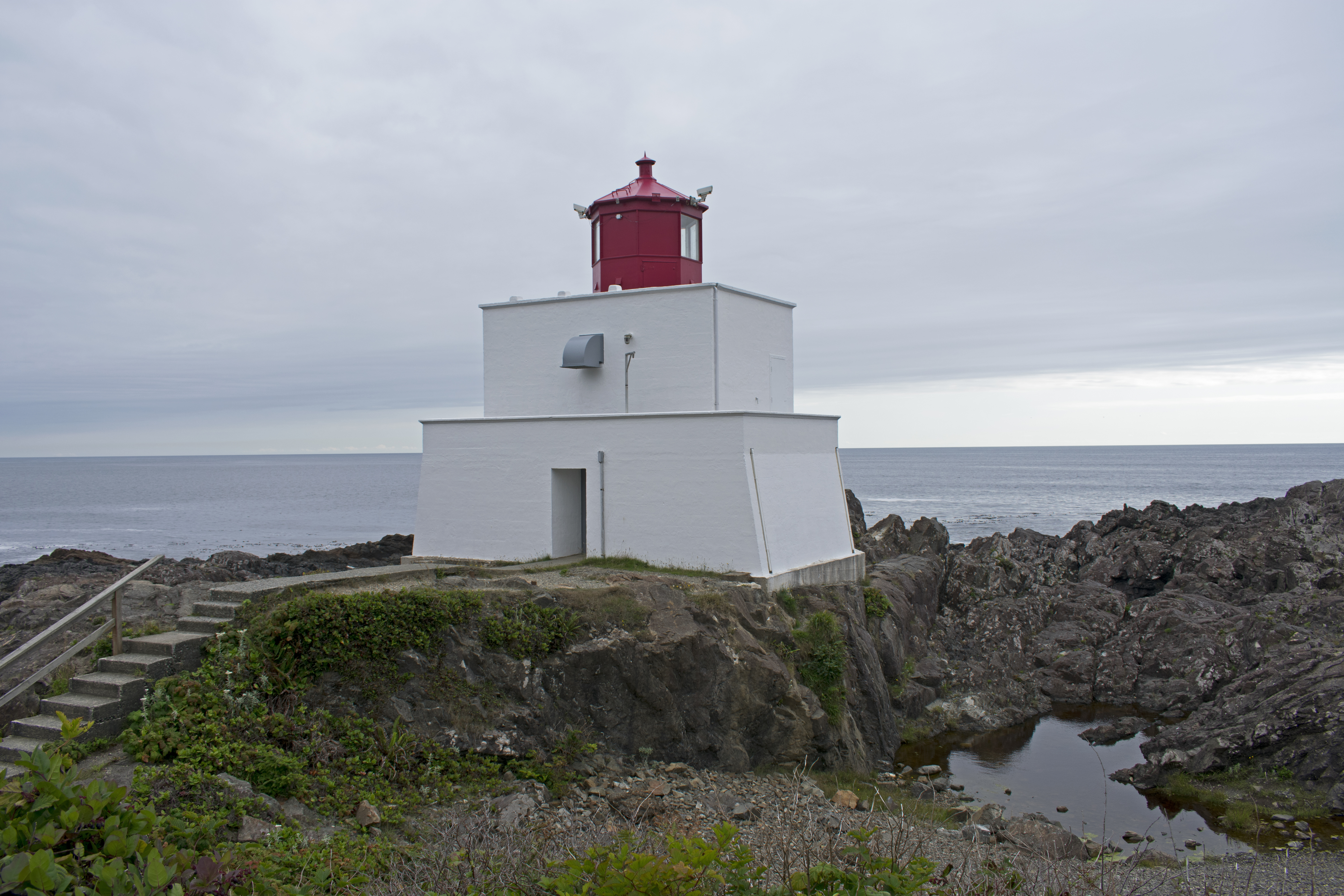 Amphitrite Point light